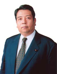 Seiichirō Murakami was inaugurated as Minister of State for Regulatory Reform on September, 2004.